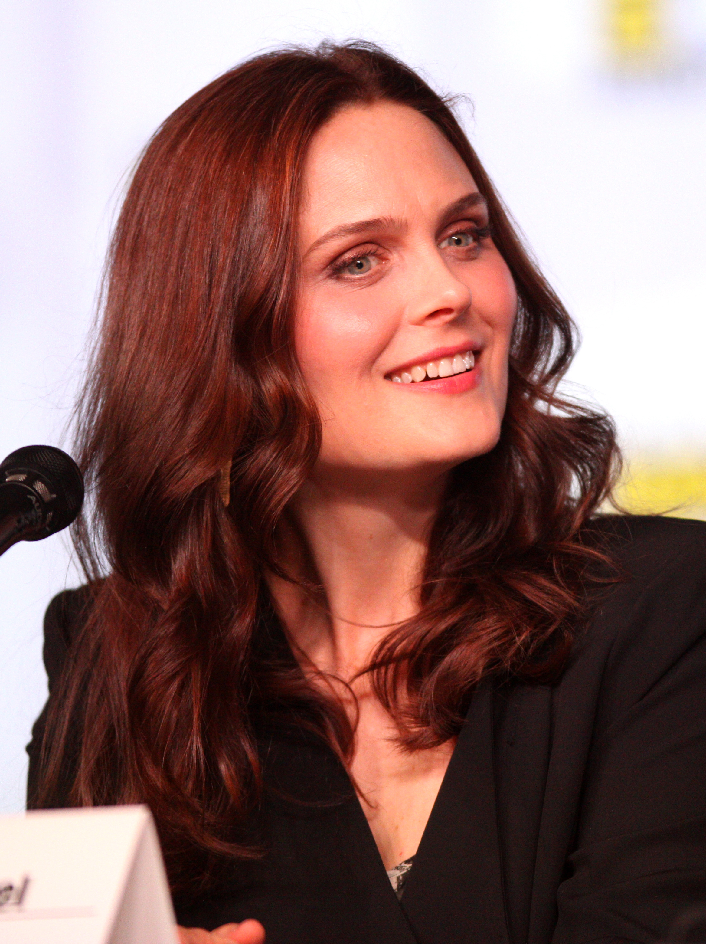 Emily Deschanel at the 2012 Comic-Con in San Diego.